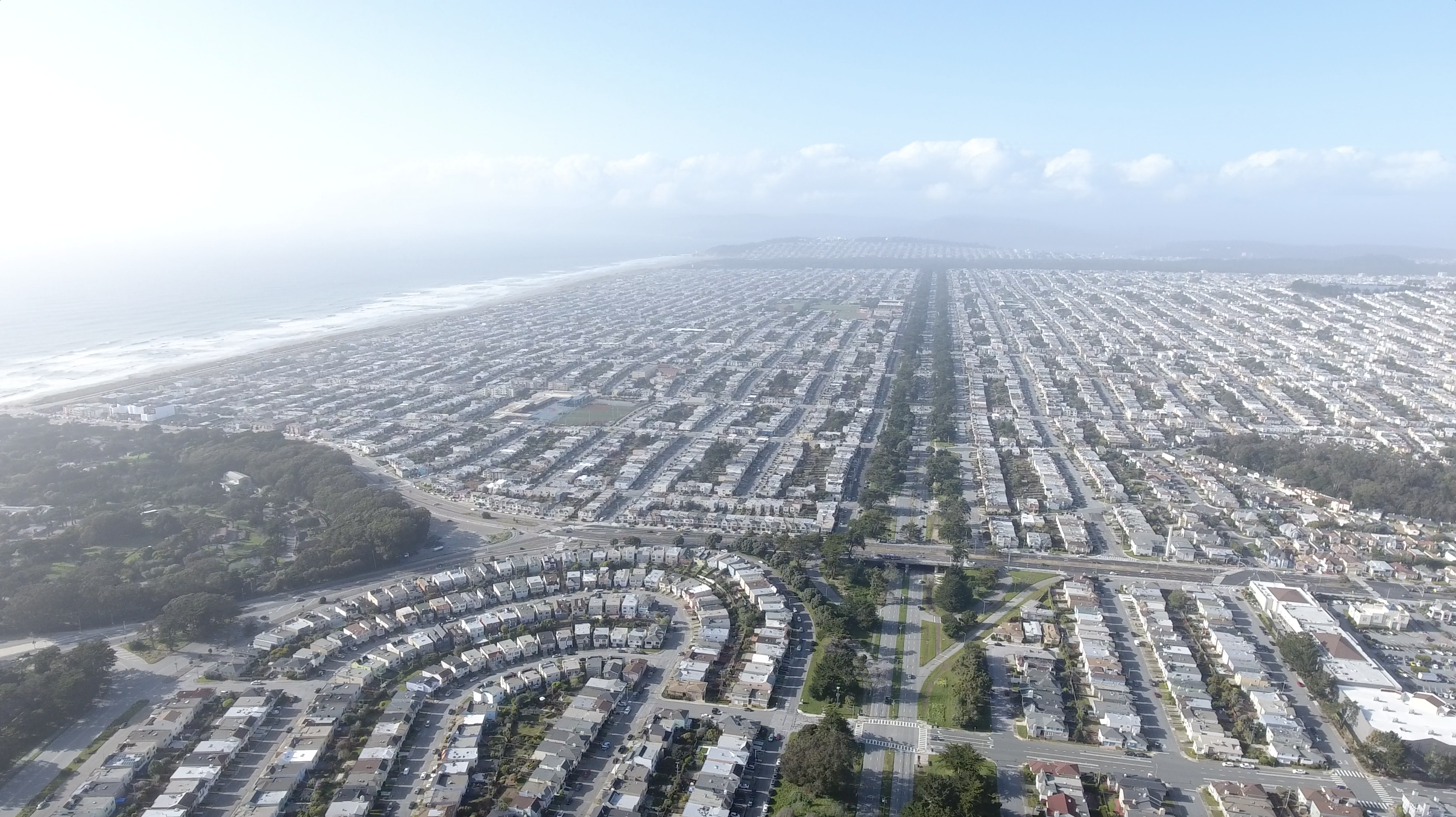 Aerial view of San Francisco's Sunset District